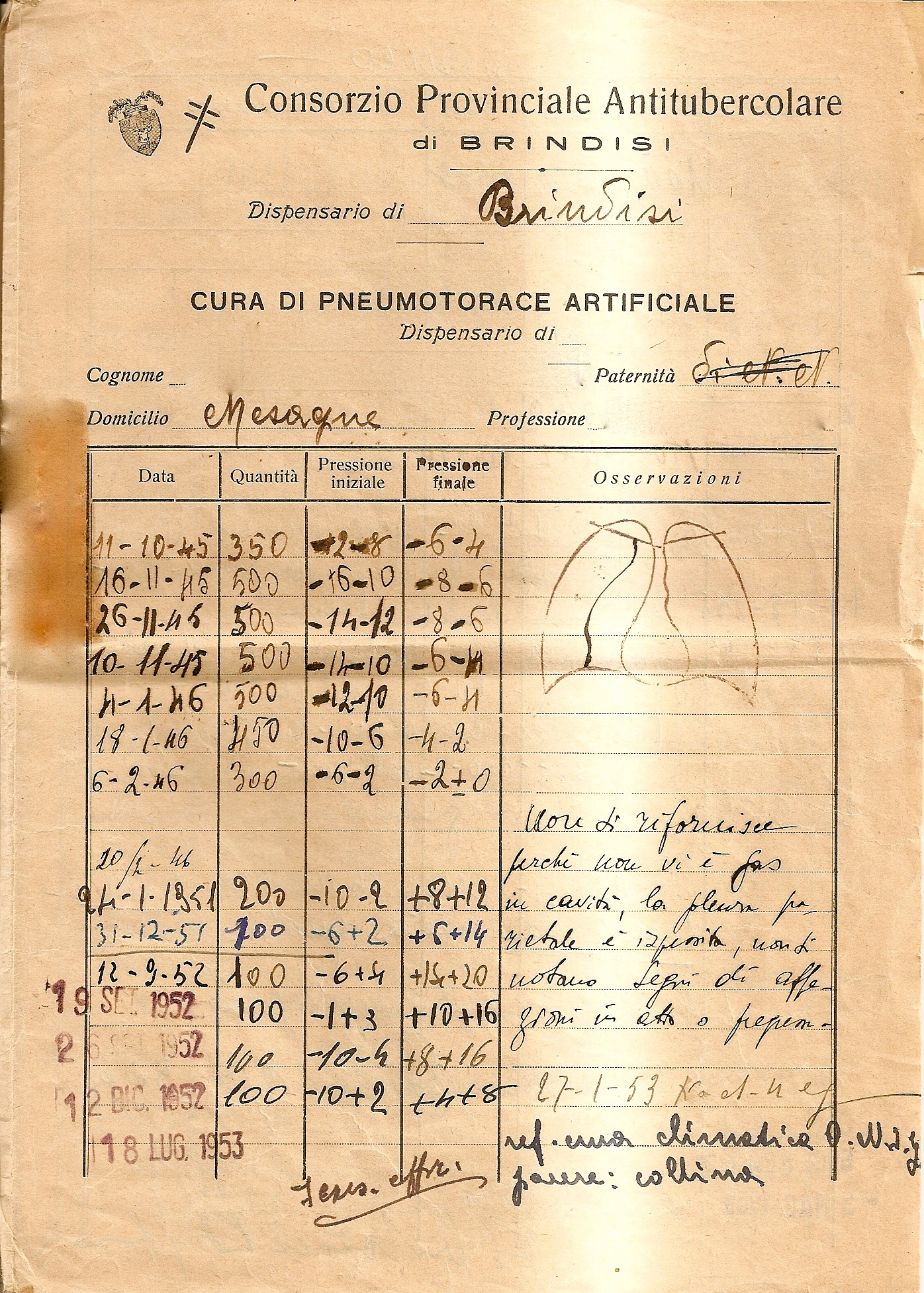 consorzio provinciale antitubercolare